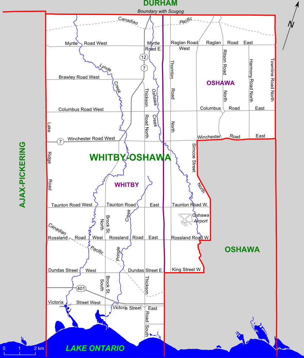 Map of the Ontario federal and provincial riding of Whitby-Oshawa (boundaries defined in 2003, represented federally since 2004 and provincially since 2007)